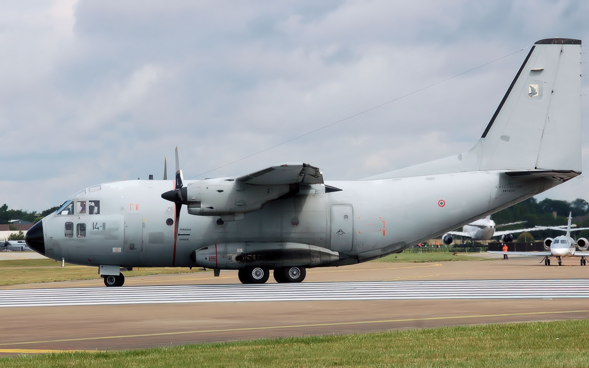 Italian Air Force G.222 (code 14-11) taxis for take off at the 2009 Royal International Air Tattoo, Fairford, Gloucestershire, England.